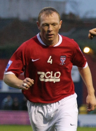 Stuart Elliott. Image cropped from original at flickr.